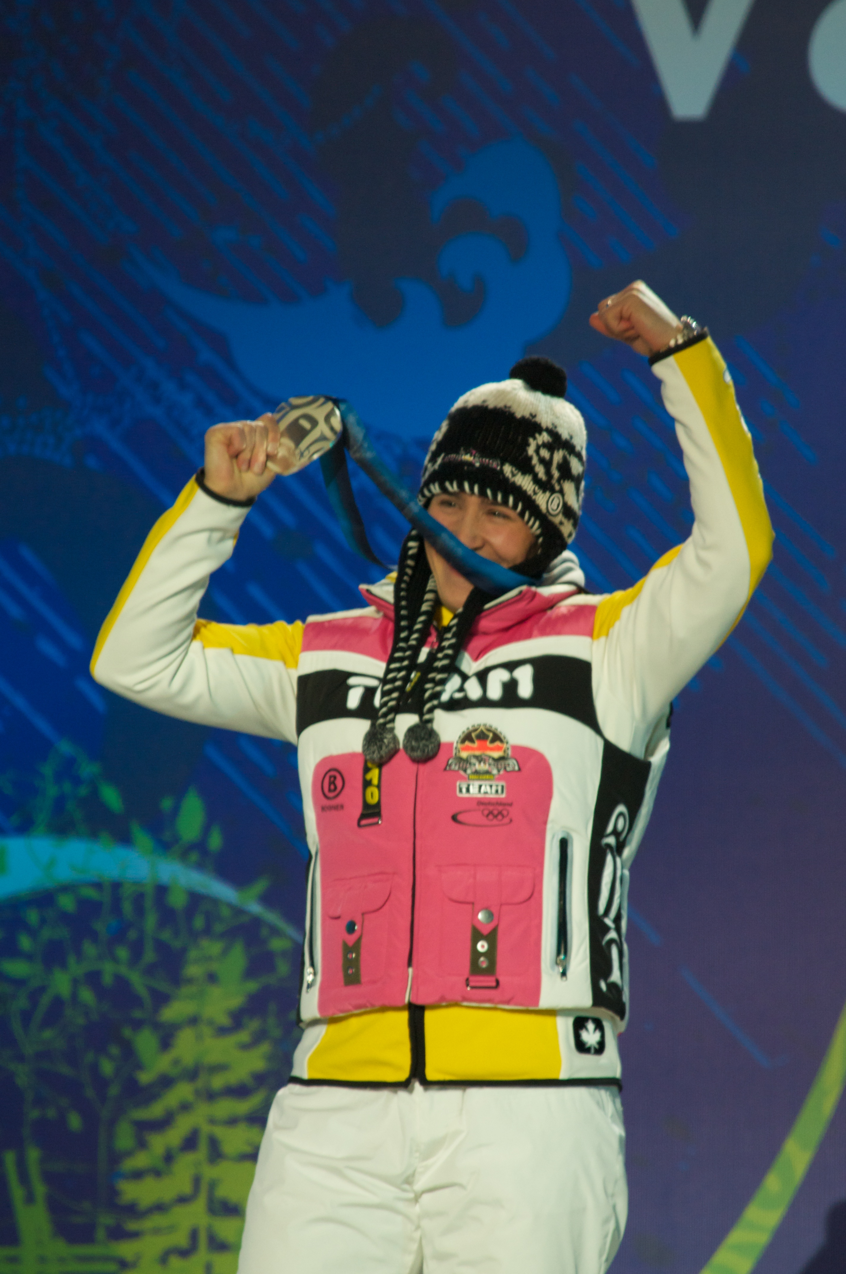 German skeleton racer Kerstin Szymkowiak (born 1977), silver medal winner at the 2010 Winter Olympics in Vancouver, during the Medal Ceremony at Whistler